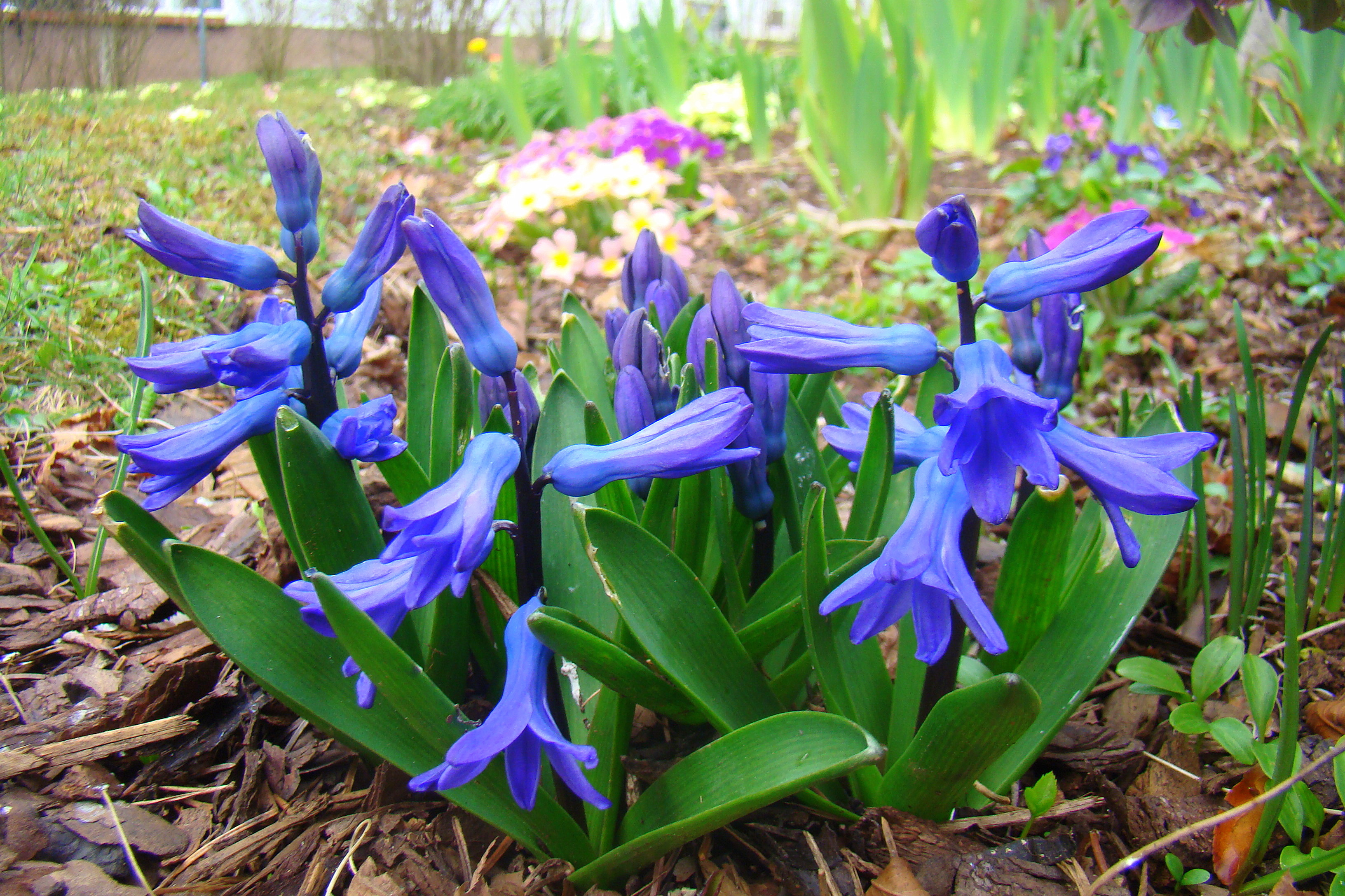 This image shows a Hyacinthus orientalis.